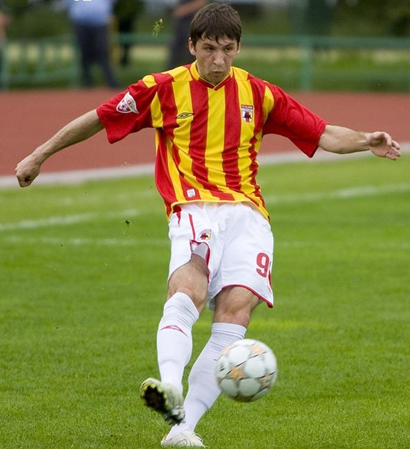 Amzor Ailarov in action for FC Alania